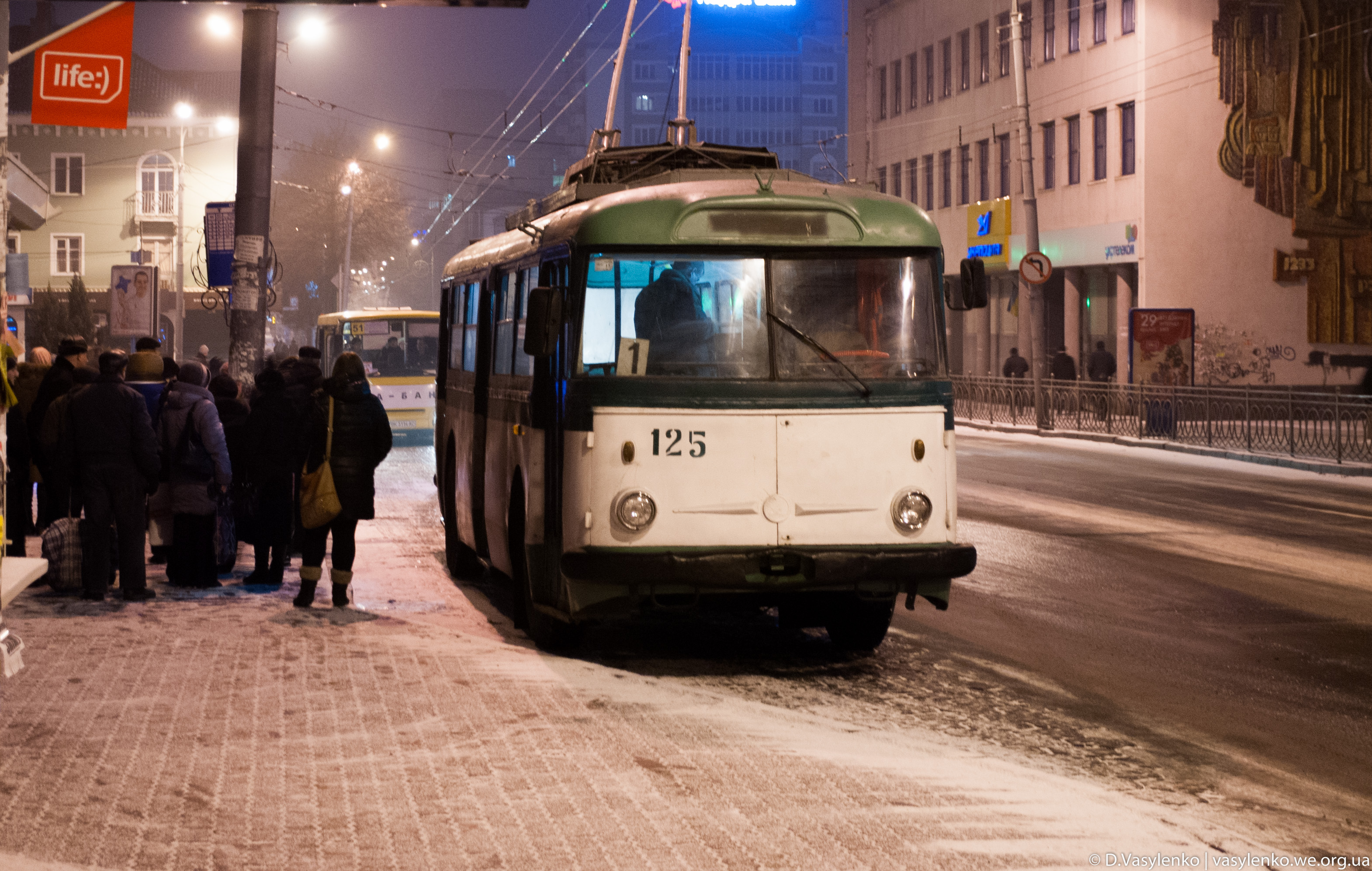 Škoda 9Tr in Rivne